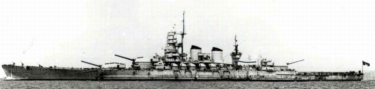 The Italian battleship Roma